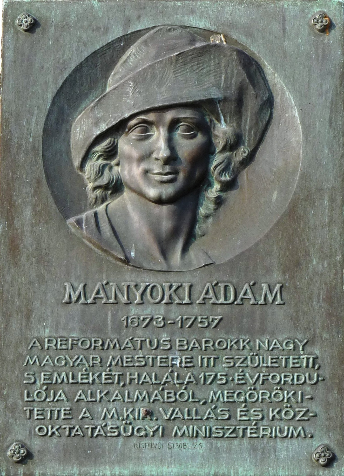 Commemorative plaque to Mr. Ádám Mányoki (1672-1757) Hungarian painter, on the wall of his birth-place. Author of the bronz relief is Mr. Zsigmond Kisfaludi Strobl. (Szokolya [Hungary], Mányoki Street Nr 3).